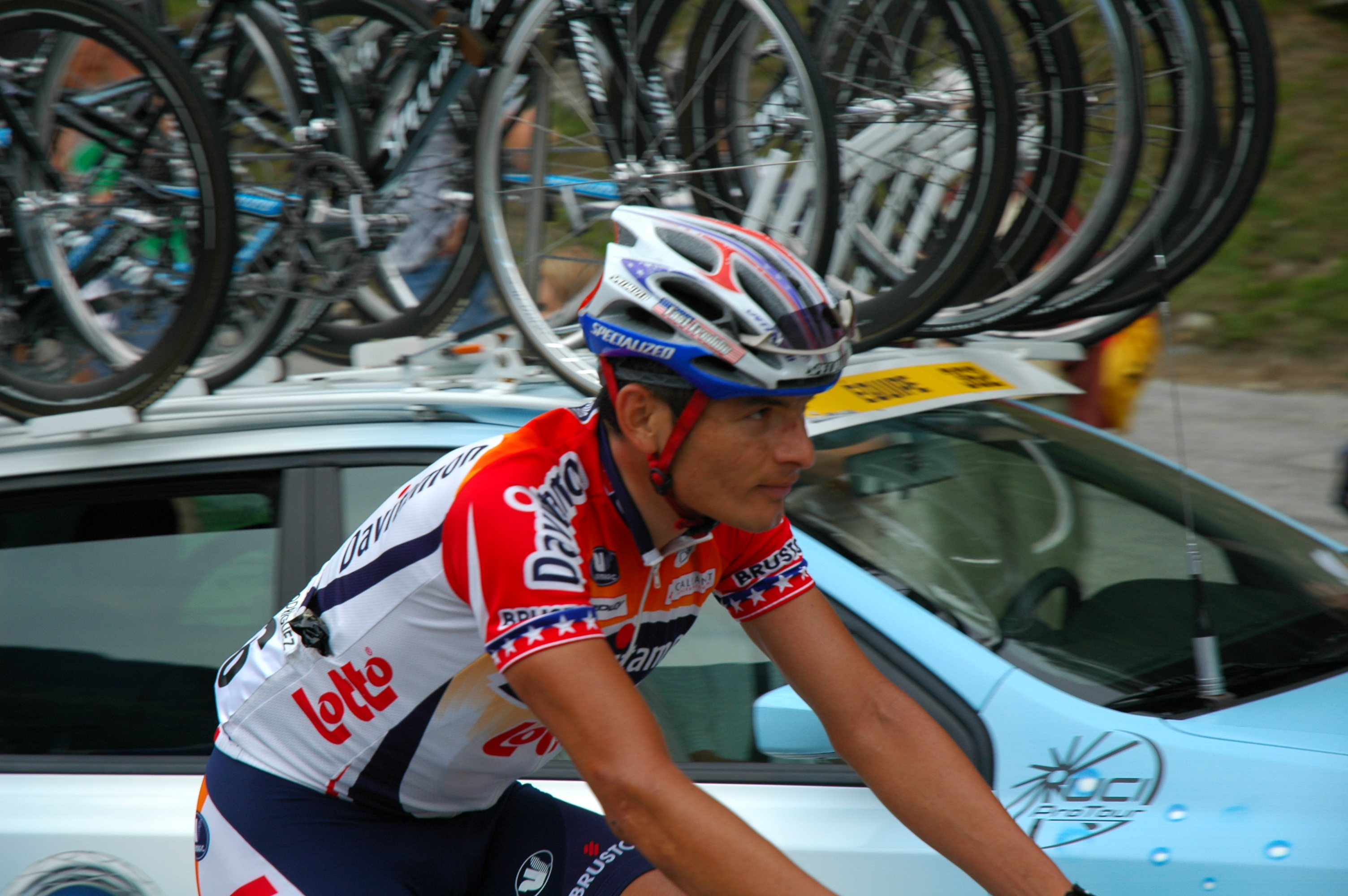 10th stage. Fred Rodriguez.